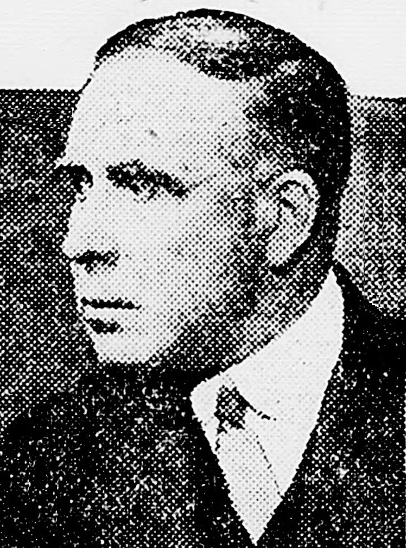 American actor DeWitt Clarke Jennings (June 21, 1871 – March 1, 1937) in the play The Woman in Room 13